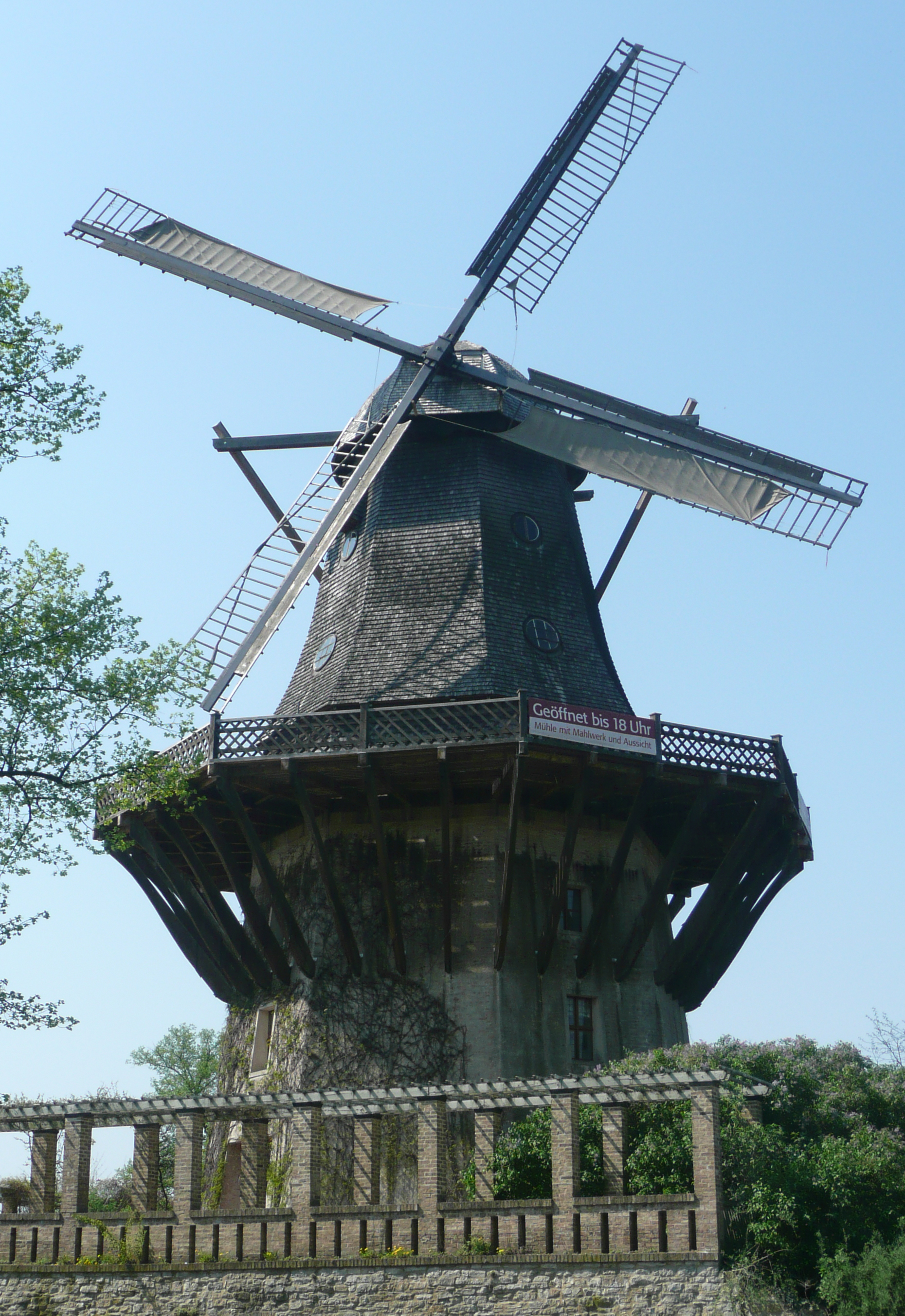 Historic Windmill in the Parc of Sanssouci, Potsdam